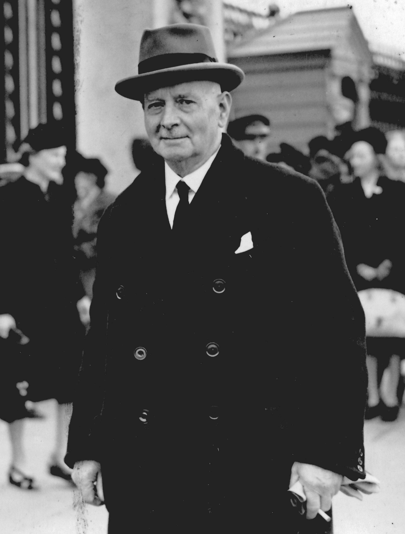 Councillor A.R Grindlay, Chairman of the Coventry Savinge Committee, leaving Buckingham Palace after receiving a decoration from His Majesty at today's Investiture. 20 May 1947